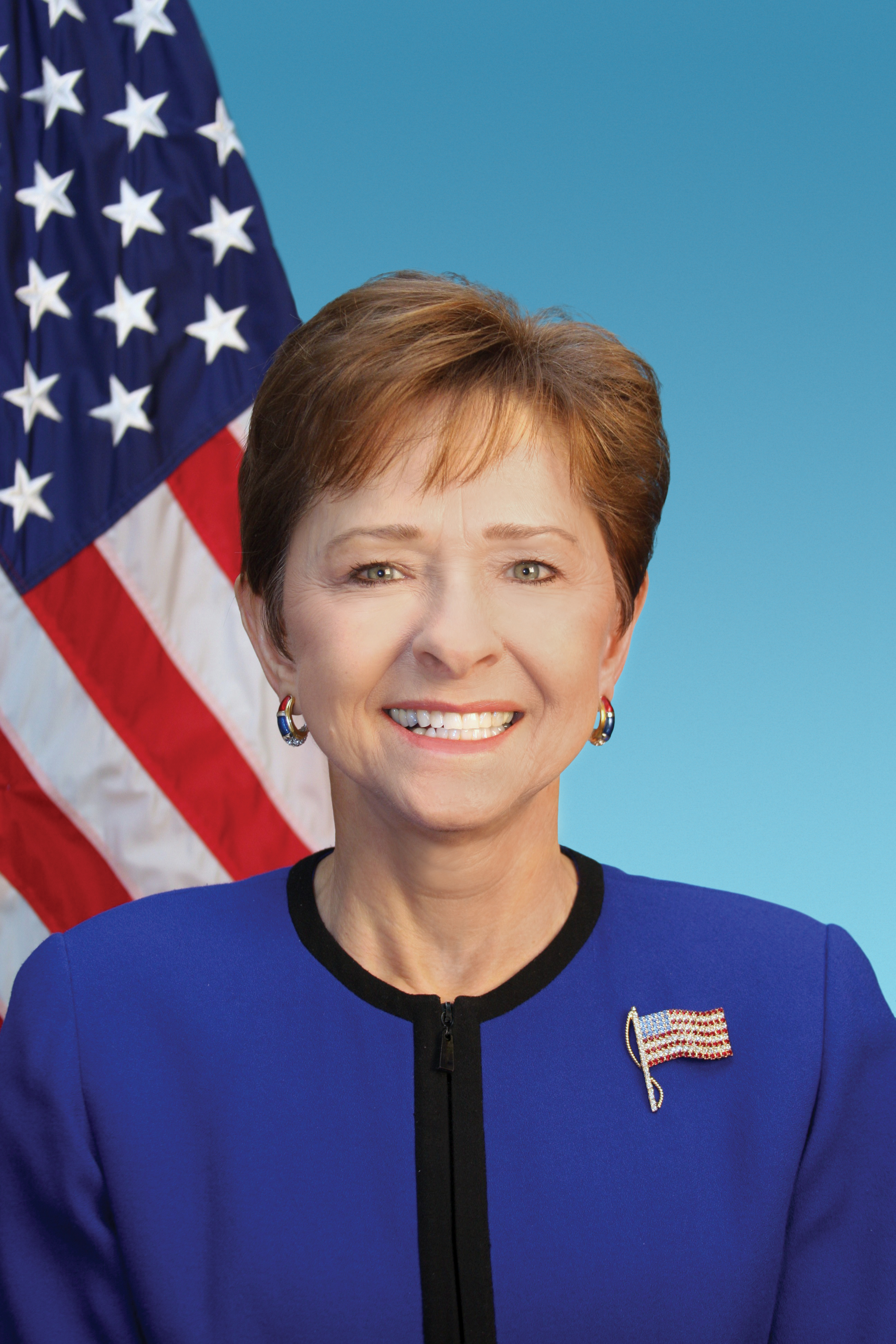 Official portrait of US COngresswoman Sue Myrick